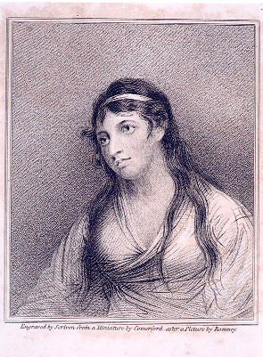 Portrait of Mary Tighe (1772-1810). Frontispiece from her Psyche, with Other Poems. 5th ed. London: Longman, Hurst, Rees, Orme, and Brown, 1816.